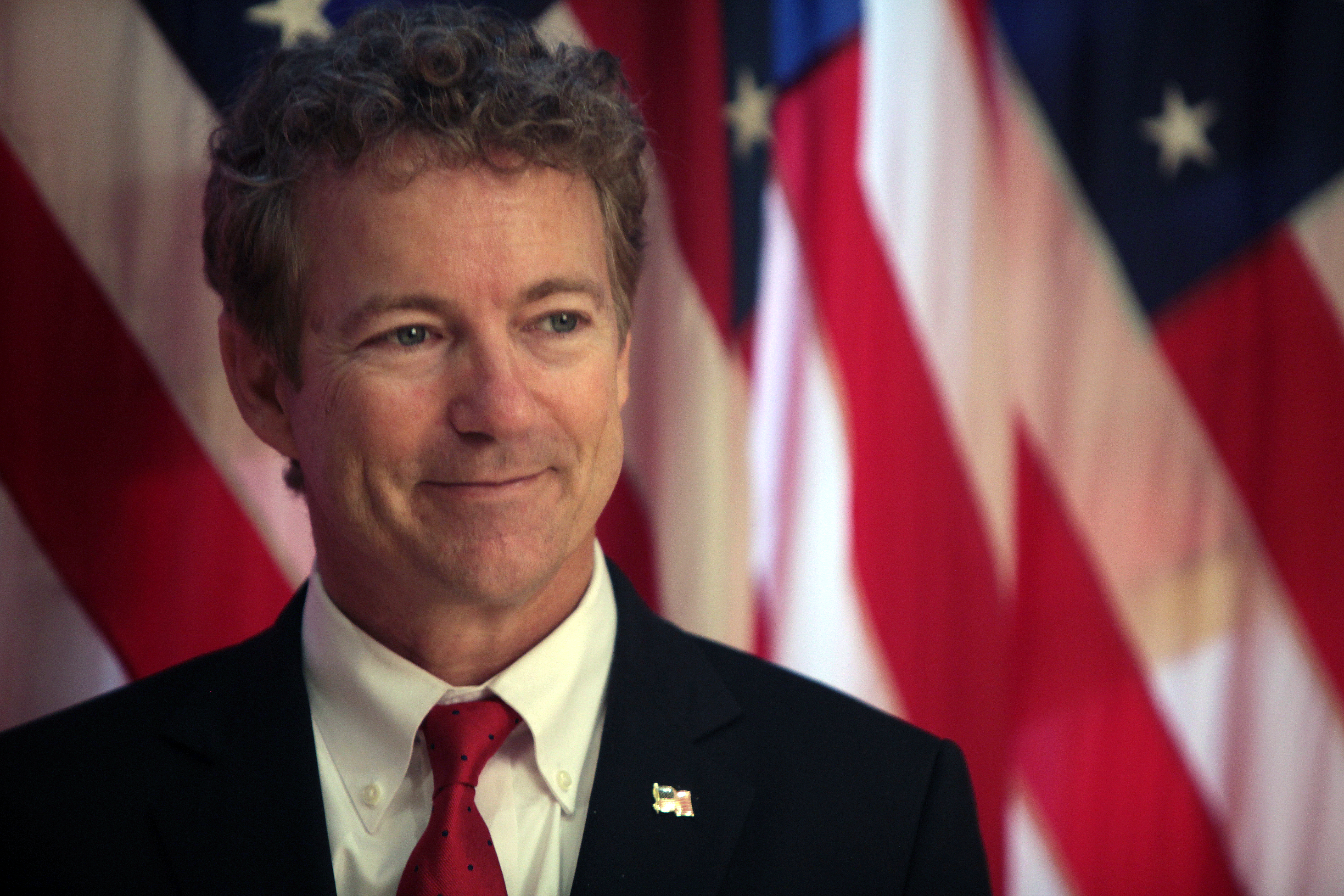 U.S. Senator Rand Paul speaking at the Orange County Republican Party's 2015 Flag Day Dinner in Irvine, California. All candidate or political action committees must obtain explicit permission to use this photo.